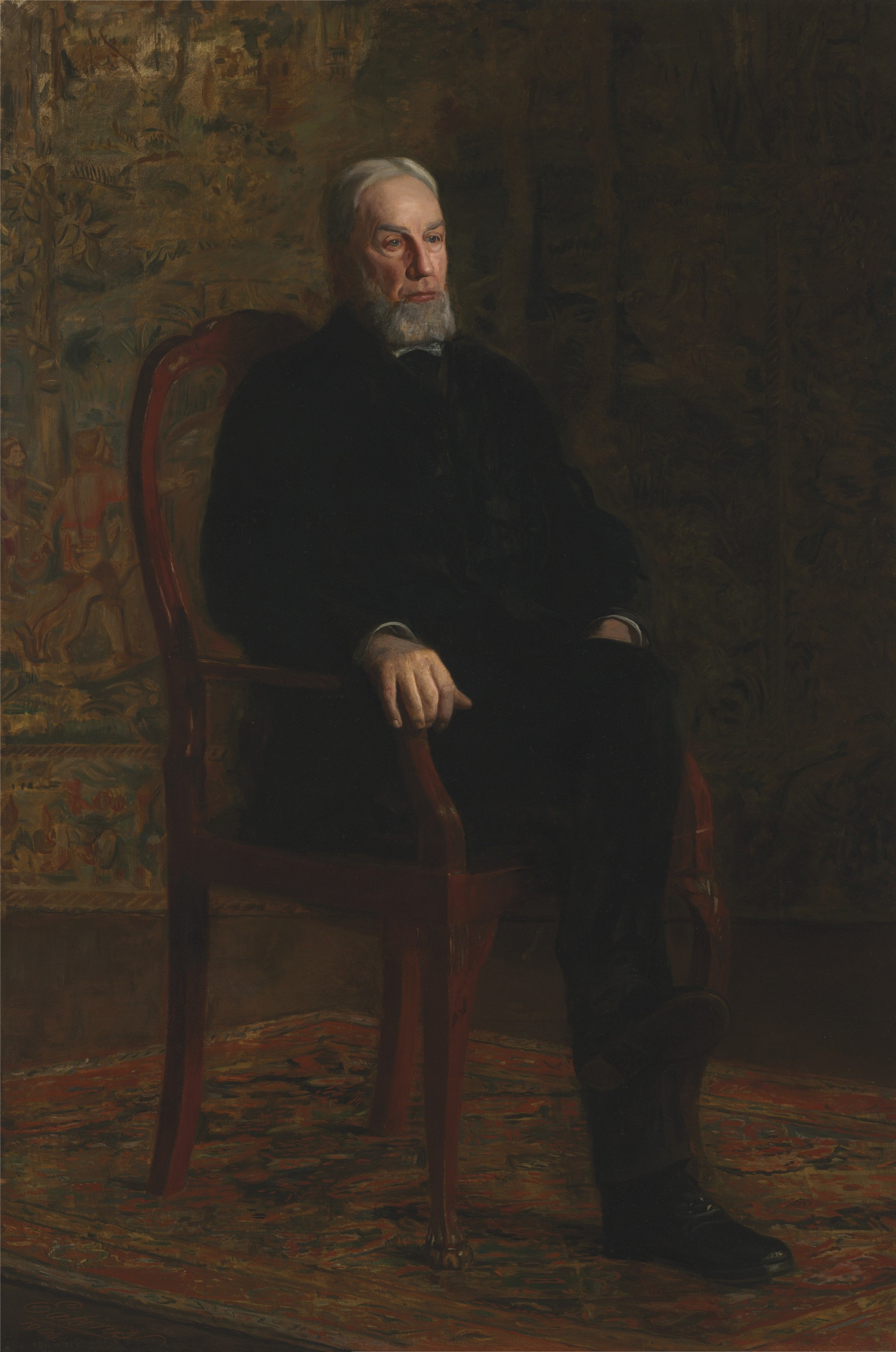 Portrait of Robert C. Ogden, G-394.